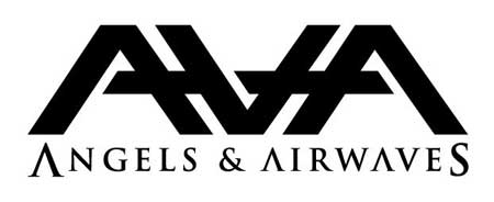 Angels and Airwaves logo